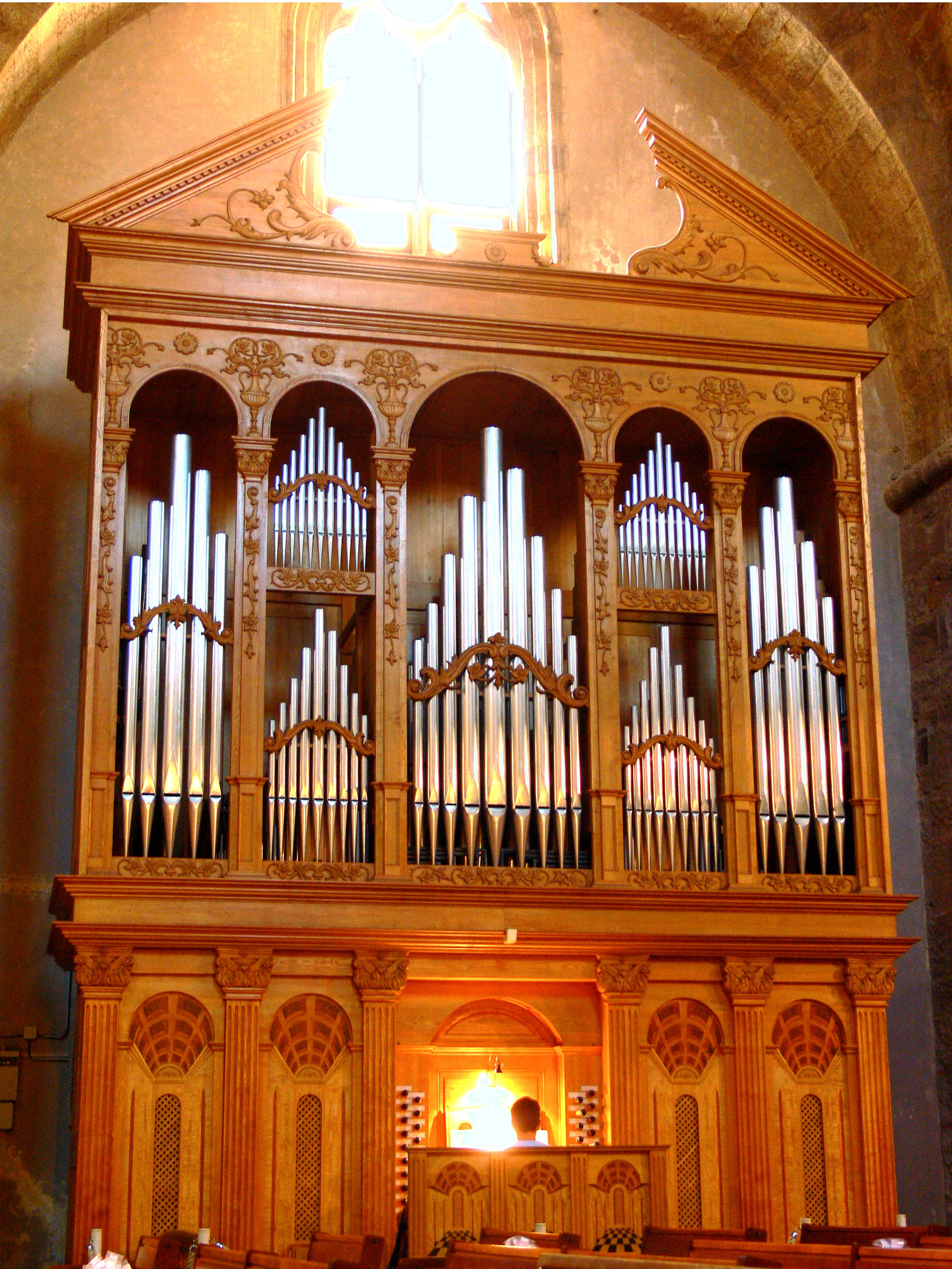 Organ of Cathedrale Saint-Leonce, Frejus, France